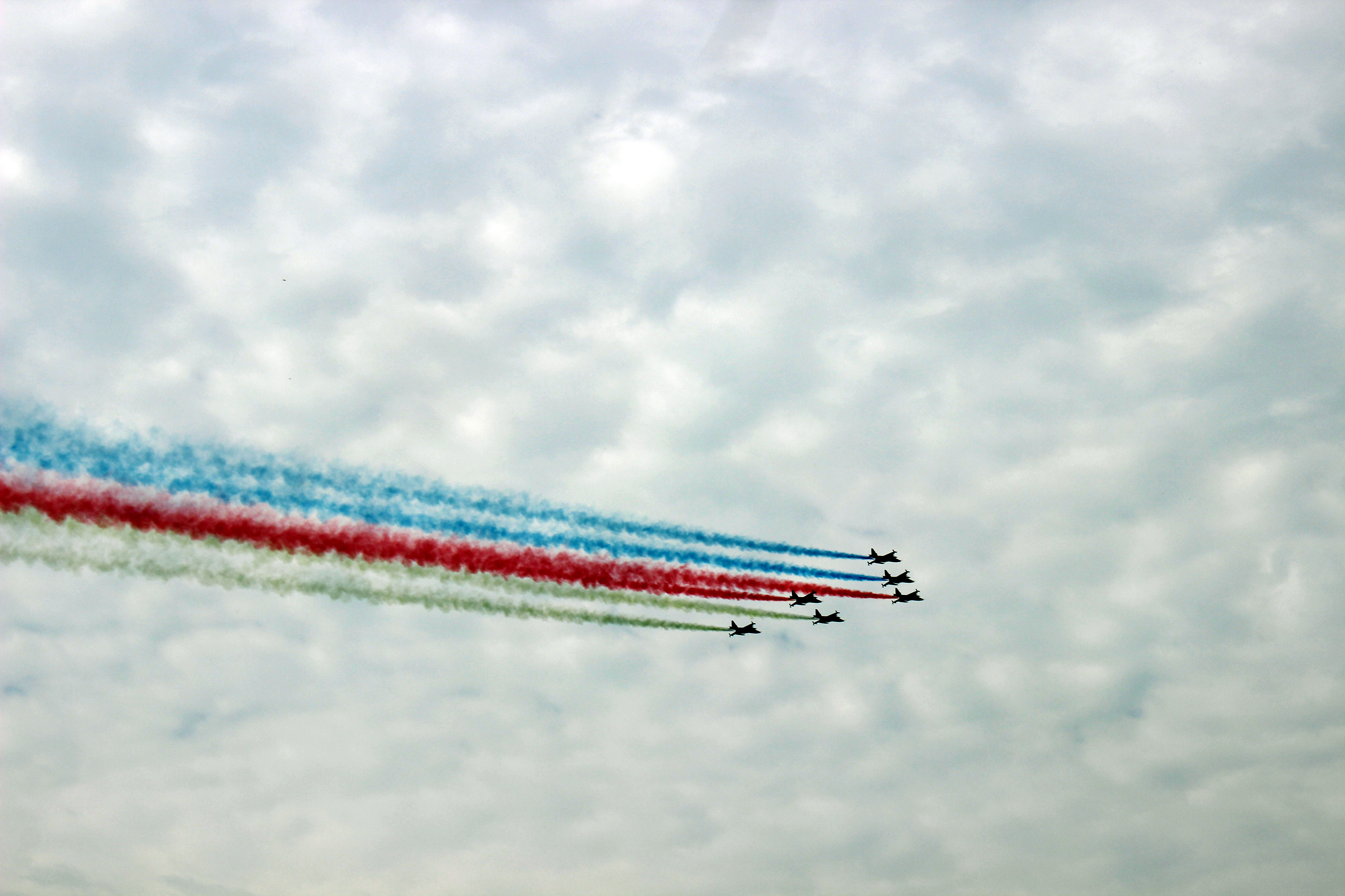 Military parade in Baku 2013